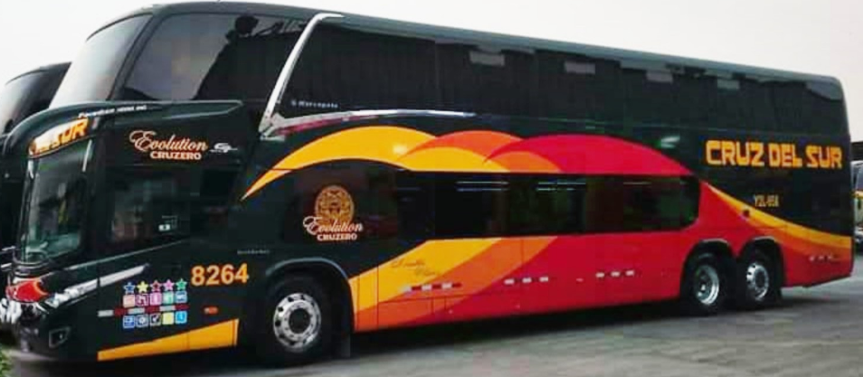 Bus similar to the accident in the Yauca tragedy